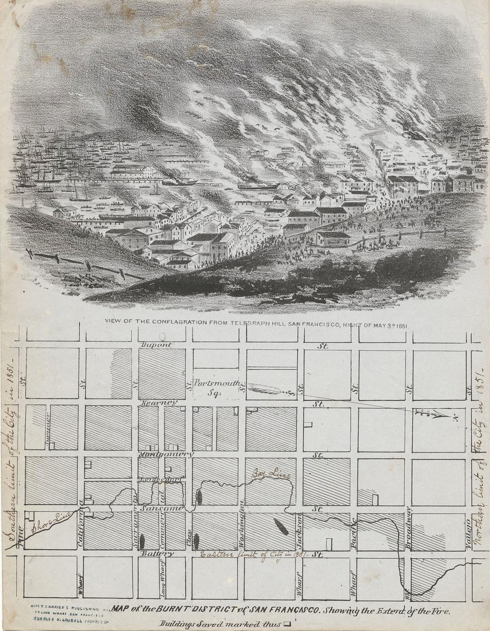 View of the conflagration from Telegraph Hill, San Francisco [California], night of May 3d, 1851/Map of the burnt district of San Francisco showing the extent of the fire.